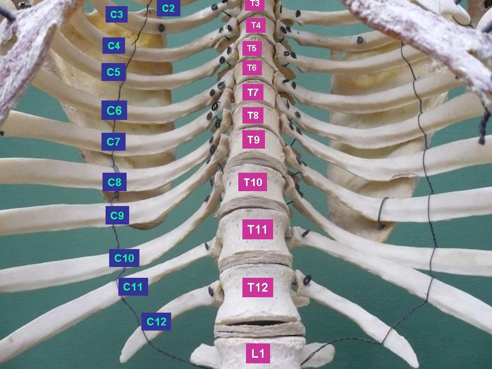 Vertebral column